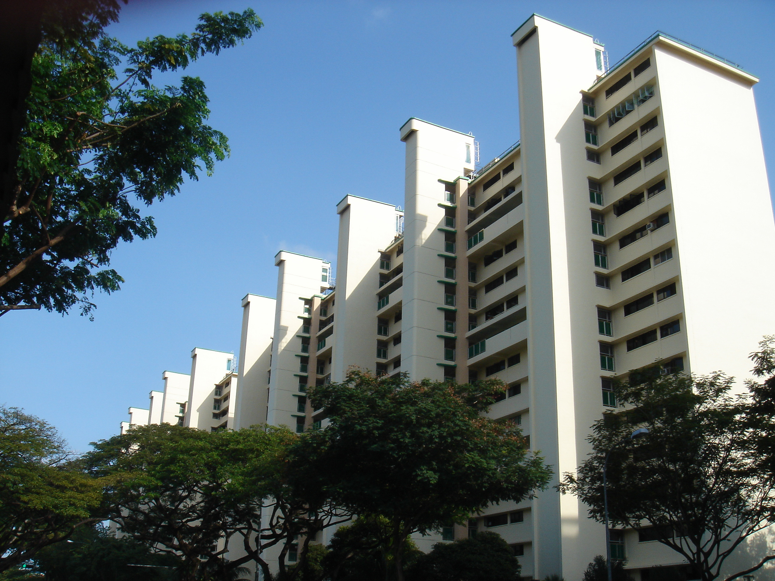 Lifts installed under the Lift Upgrading Programme in Housing and Development Board flats in Toa Payoh, Singapore.